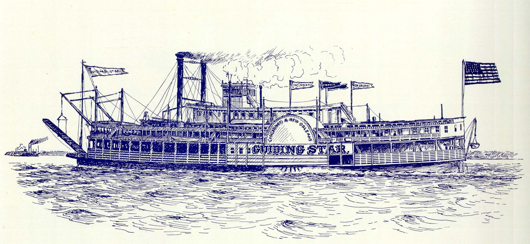 Guiding Star, Ohio and Mississippi river boat.